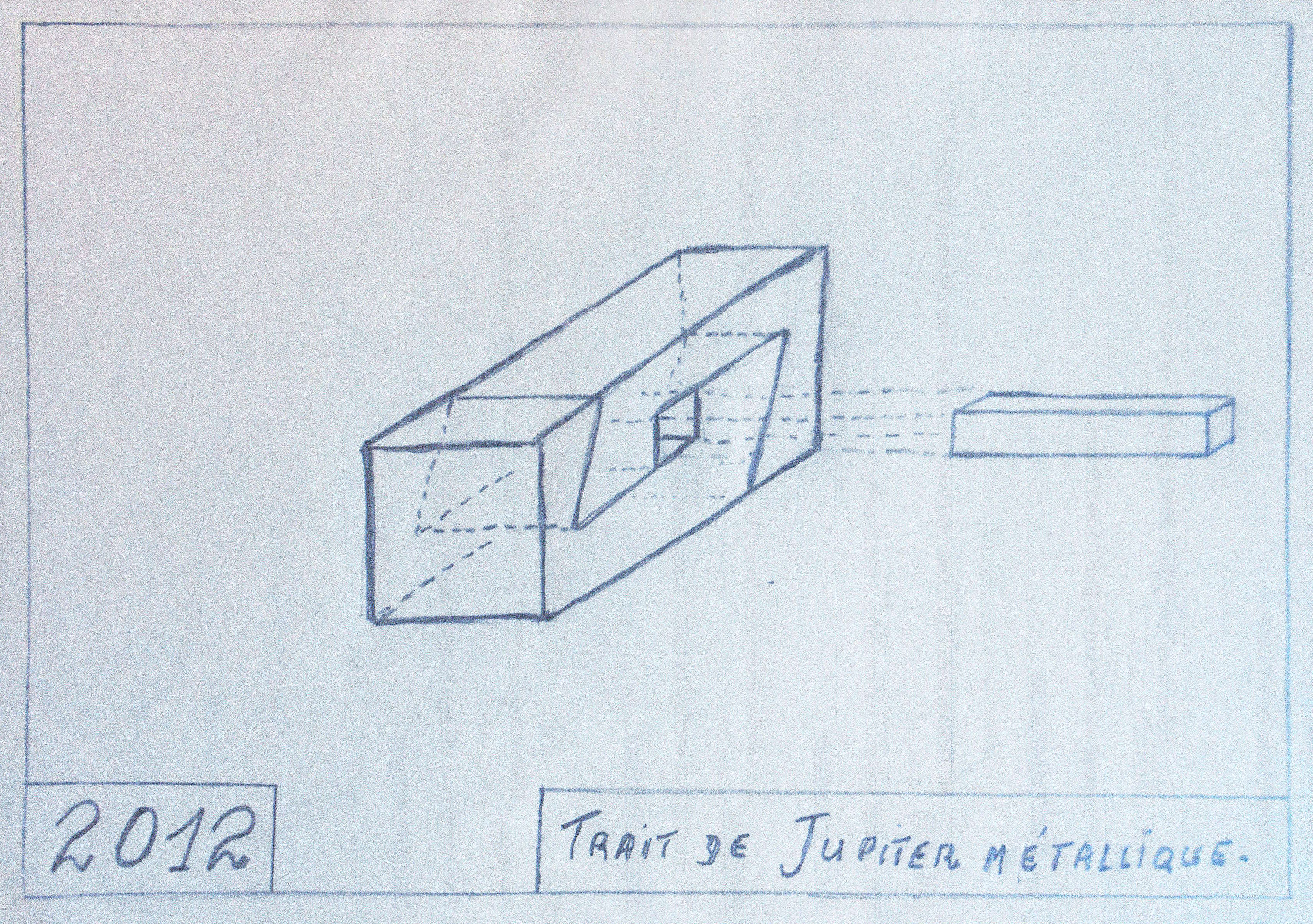 Croquis d'un Trait de Jupiter Metallique